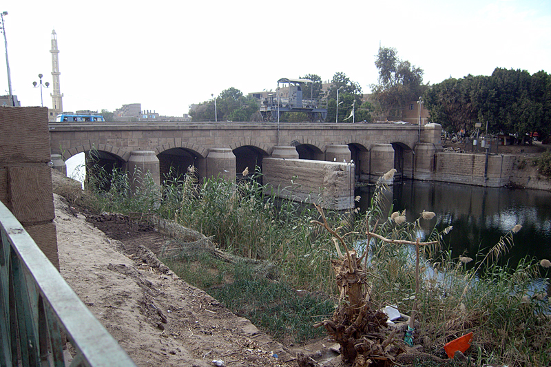 Locks at the Asfun channel, Esna, Egypt